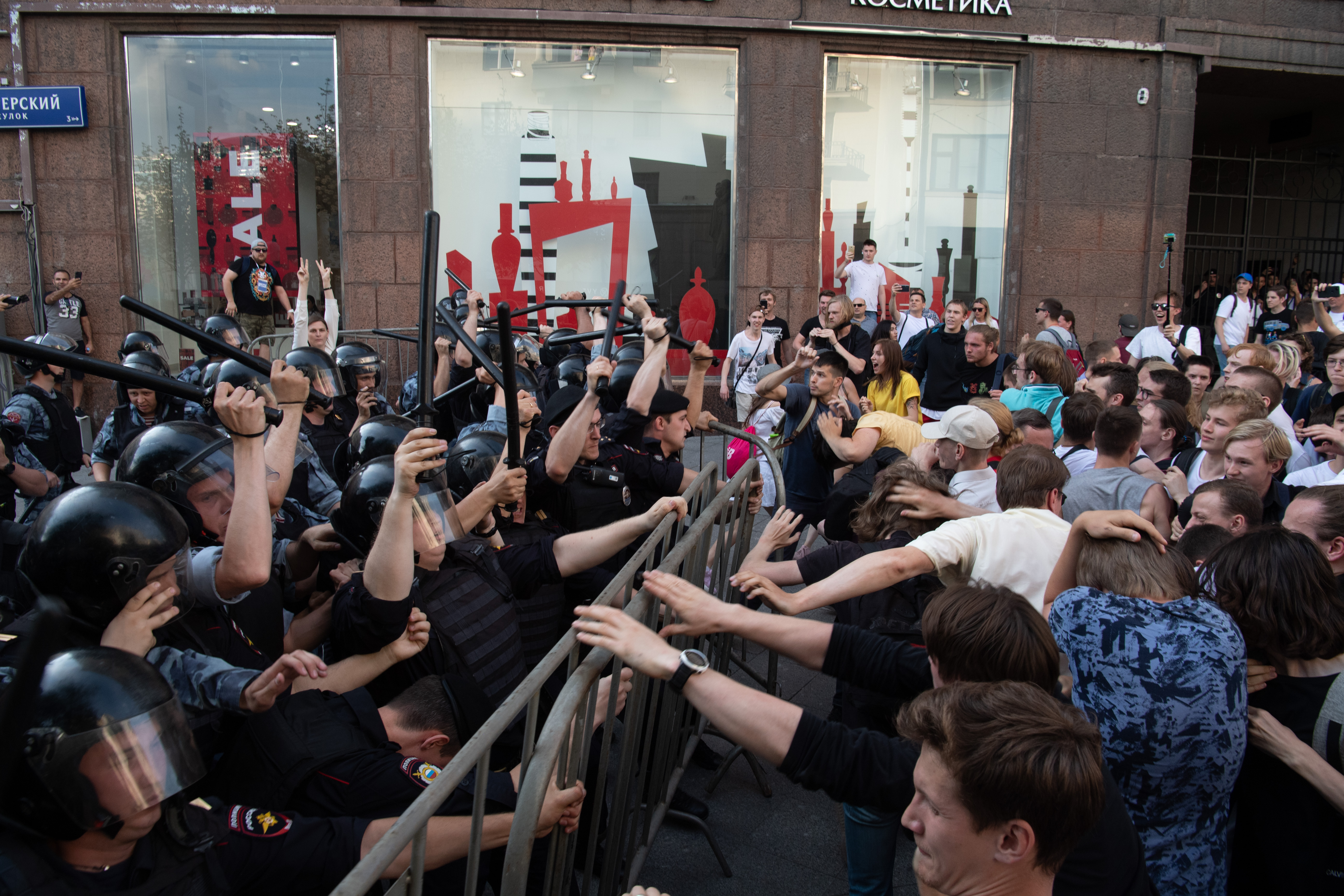 Rally in support of opposition candidates for deputies of the Moscow City Duma.